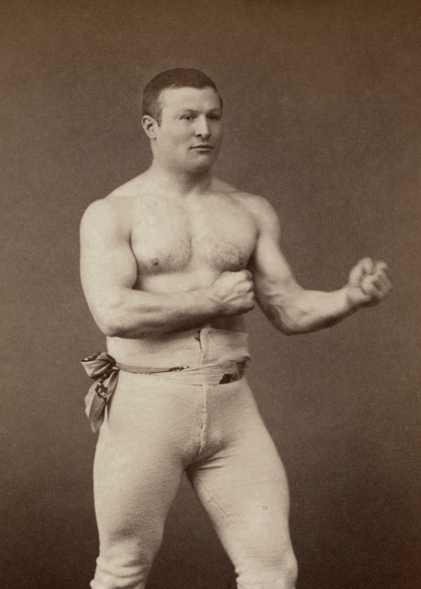 Jem Smith (1863-1931) in his boxing stance